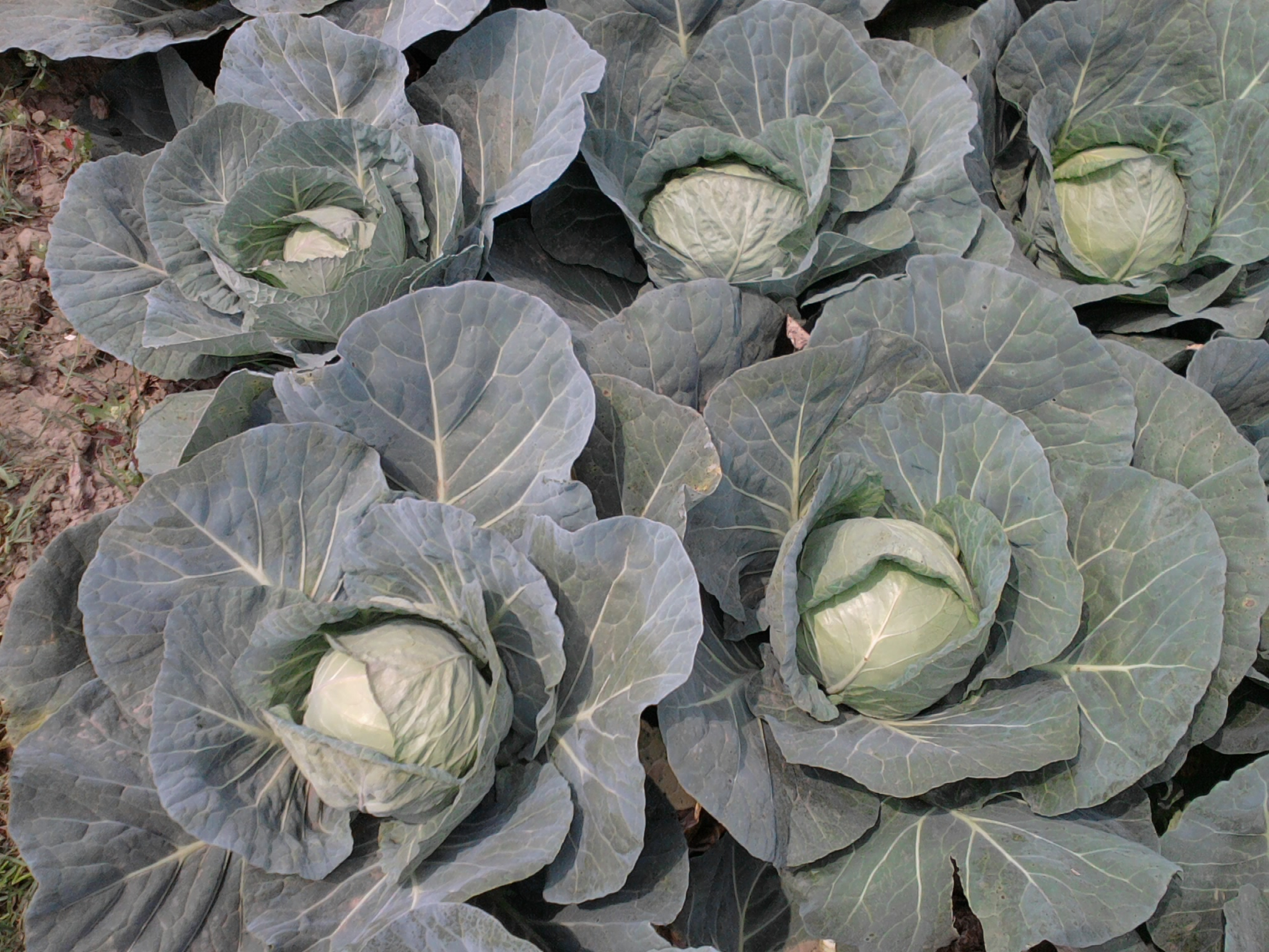 The photo was taken in cabbage fields of Nabadwip district of West Bengal, India.